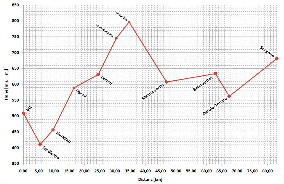 simplified altitude-profile of railway track Isili–Sorgono